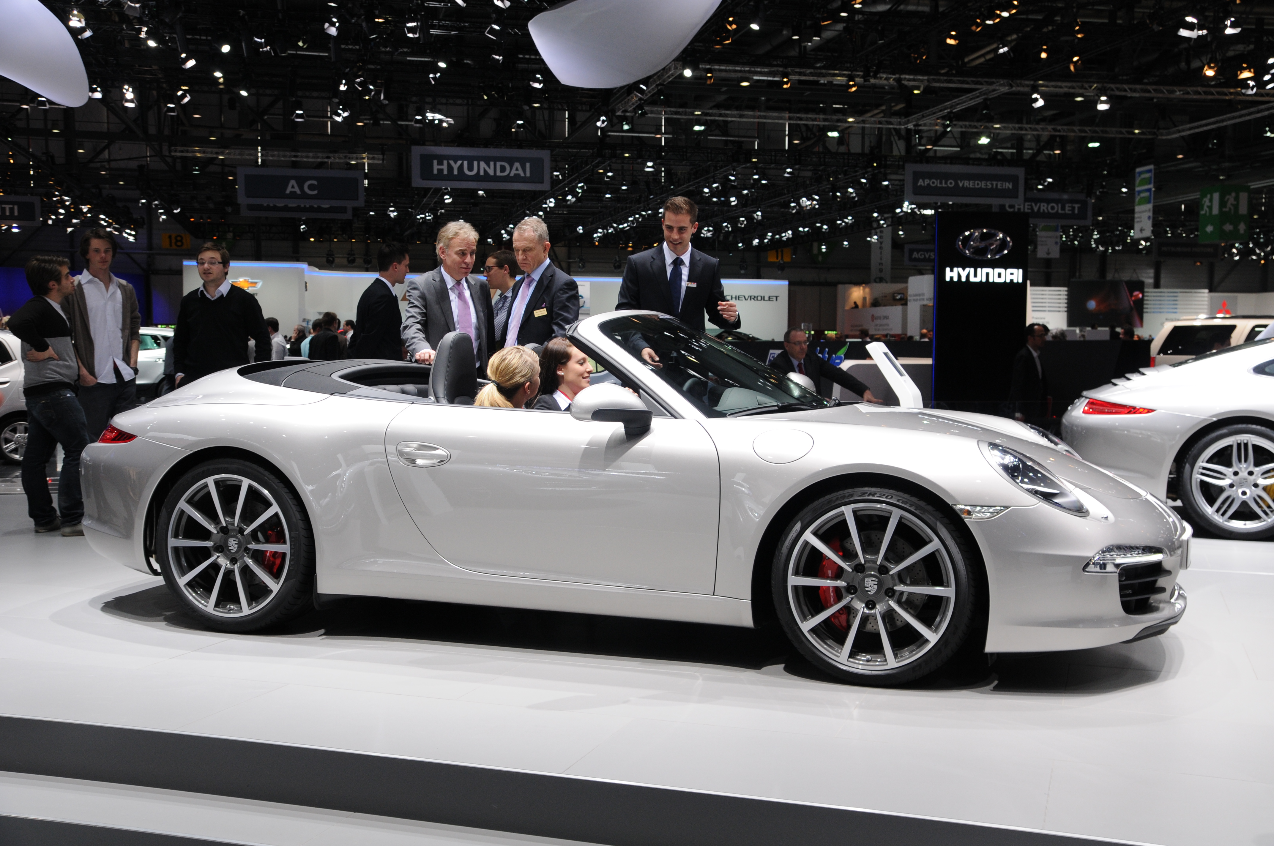 Geneva Motor Show 2012 (photos taken on the second press day)